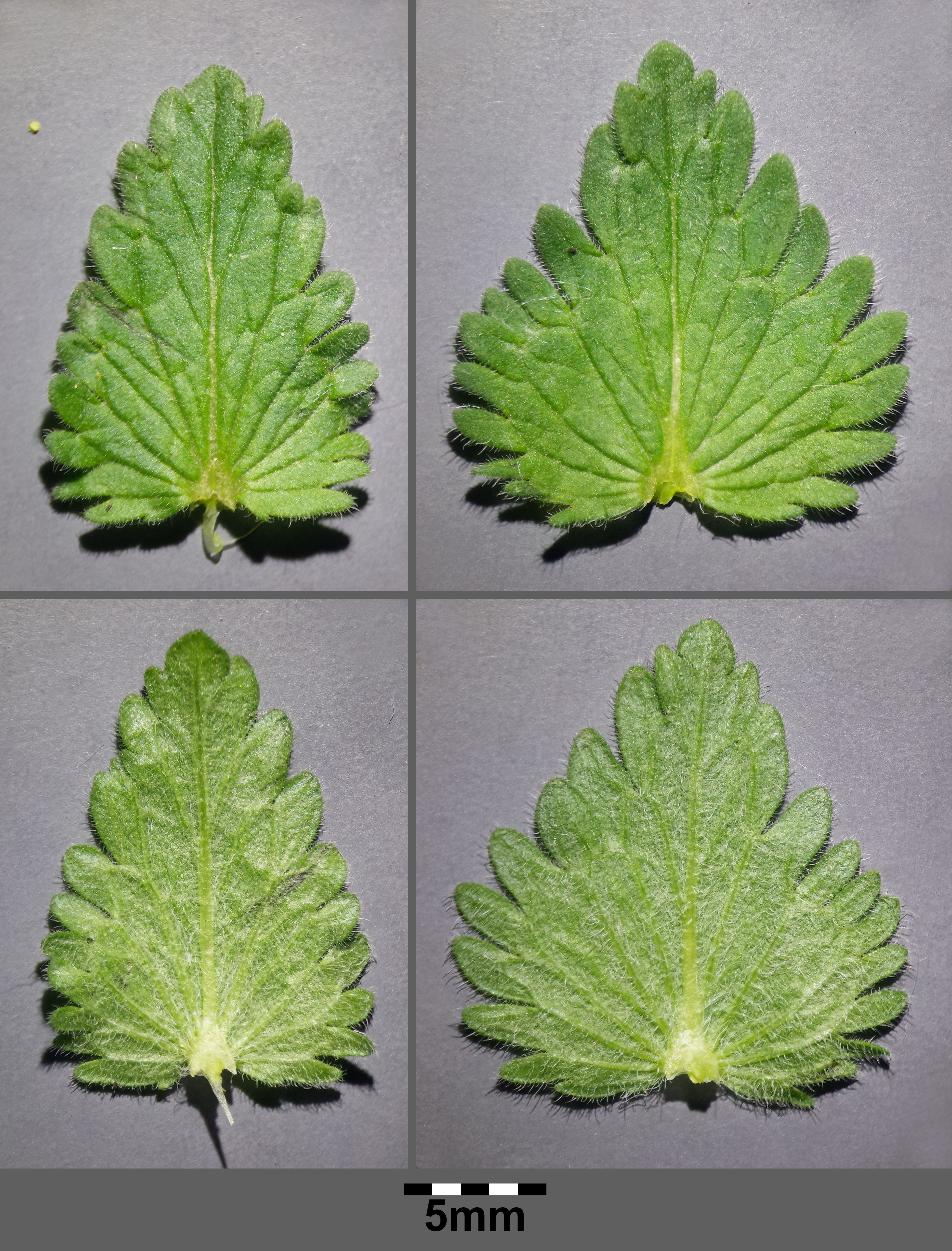 Leaves Top: upper sides Below: bottom sides Taxonym: Veronica vindobonensis ss Fischer et al. EfÖLS 2008 ISBN 978-3-85474-187-9 Location: between Michelberg and Steinberg near Niederhollabrunn, district Korneuburg, Lower Austria - ca. 300 m a.s.l. Habitat: semi-dry grassland